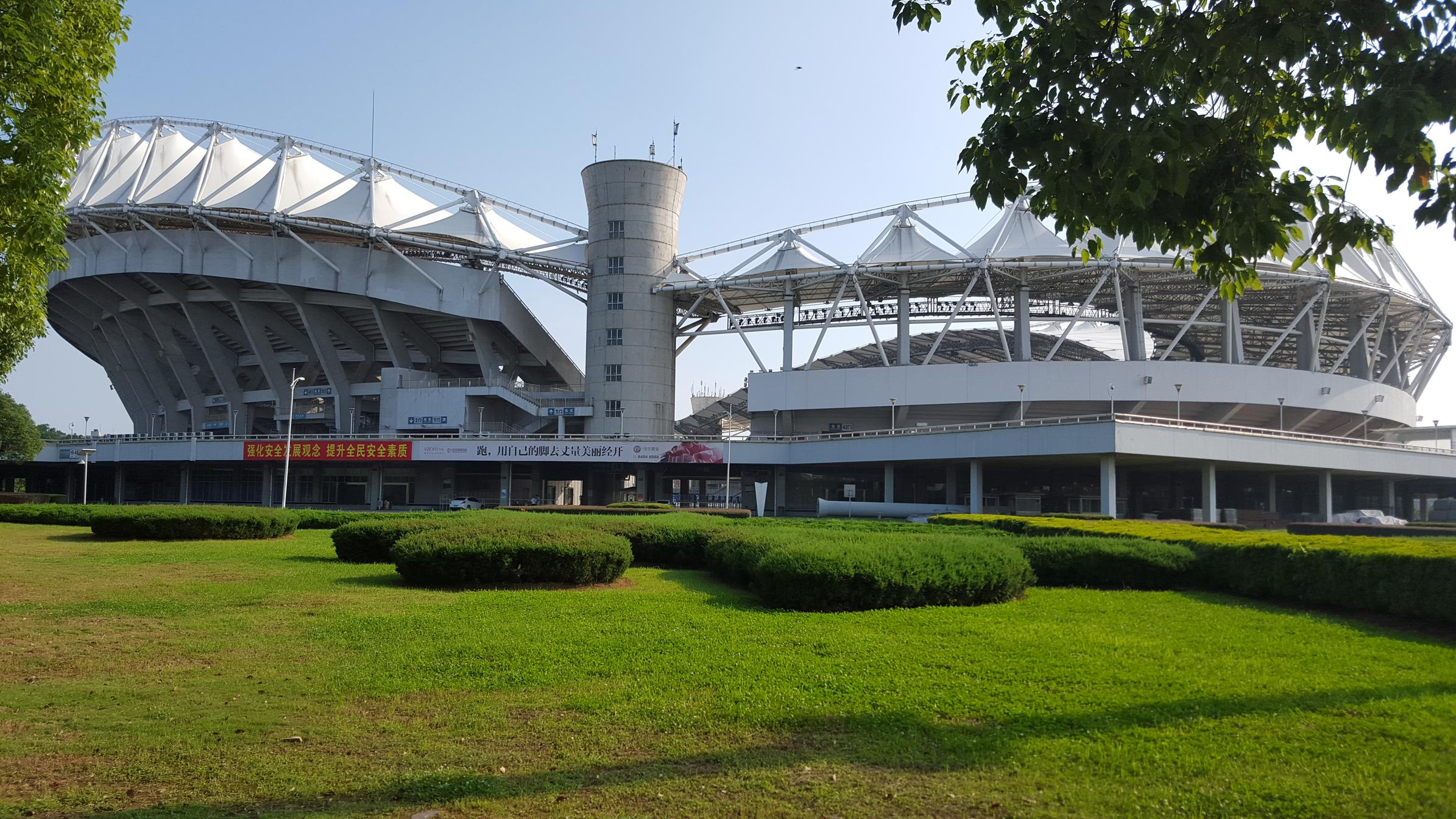 Wuhan Sport Centre